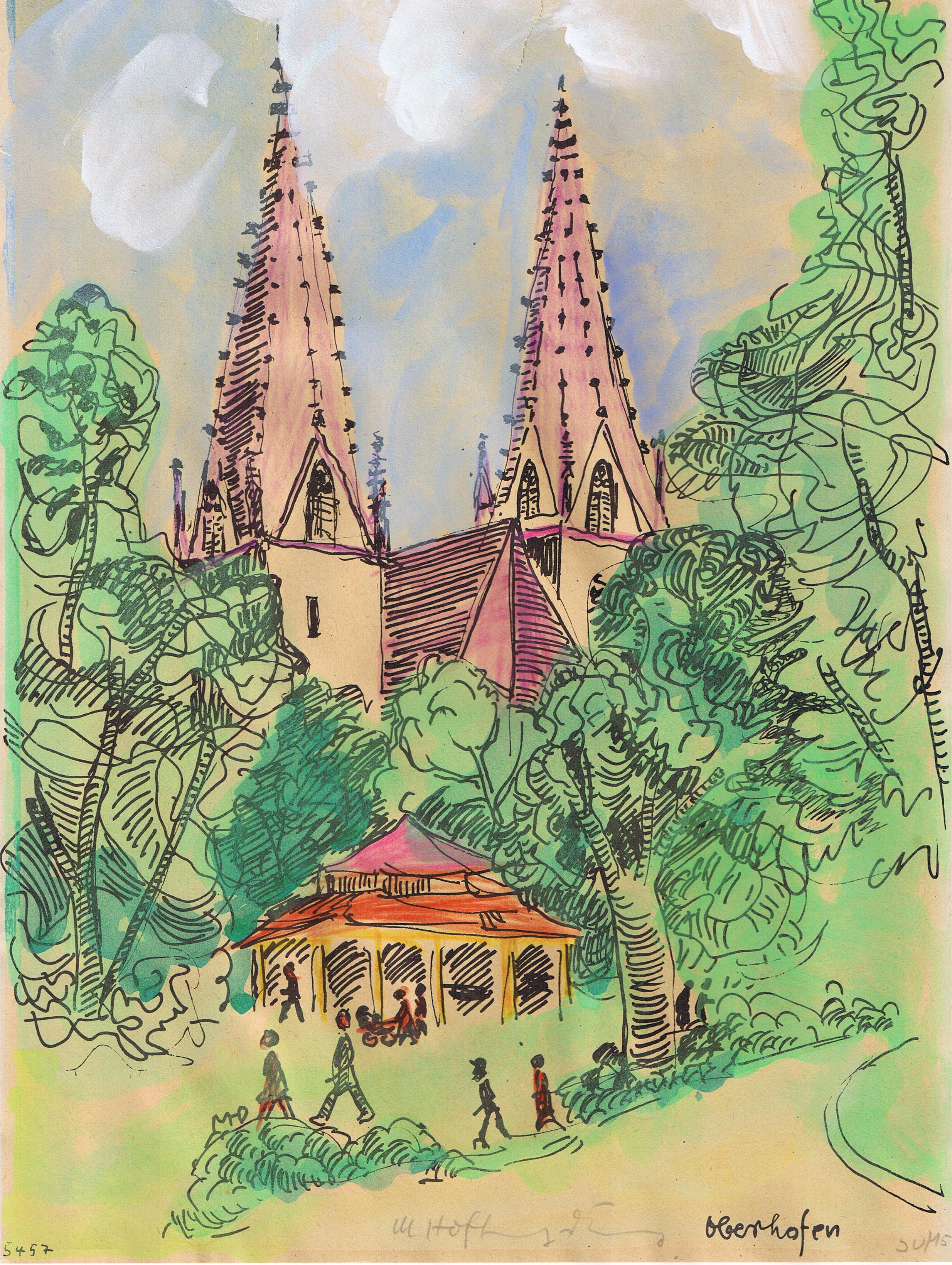 Göppingen, Oberhofenkirche, water color